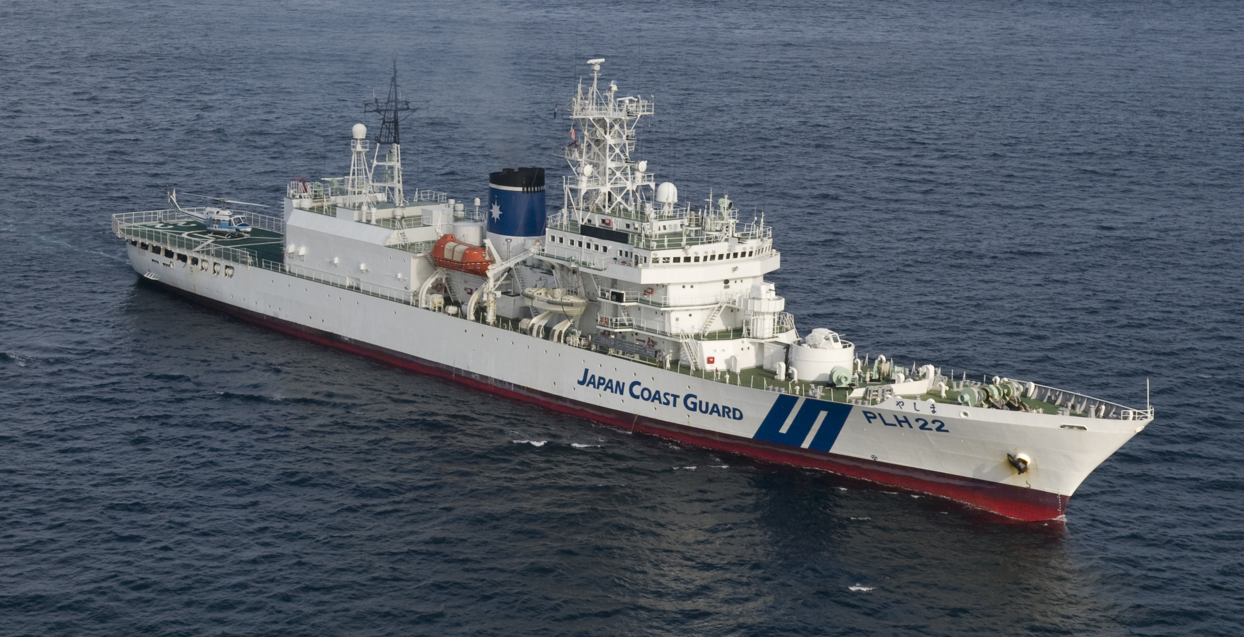 Japan Coast Guard vessel Yashima. Original caption: "The Japanese Coast Guard Cutter Yashima makes its way here as part of Excercise Pacific Unity 2009, Aug. 23, 2009. Pacific Unity 2009 is a coordinated North Pacific Coast Guard Forum scenario that is focused on demonstrating the parter nation's ability to provide maritime assets during an excercise occuring in the Pacific Northwest. Japan, Russia, Canada and the United States are sending vessels to take part in the evolutions while two members of the forum, China and South Korea, will be participating as observers. Specifically, the partner nations will be coordinating simulated search and rescue, aids to navigation, law enforcement and security operations during the three day event. In addition, there will be opportunities for the crews participating to join together in social and cultural events aimed at building camaraderie and team work." VIRIN = 090823-G-1034C-022